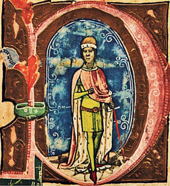 Stephen IV of Hungary